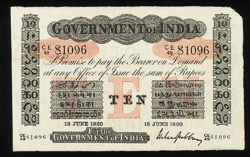 And here's what a British Indian ten-rupee note looked like in 1920 "Government of India, 5-Rupees, 28 December 1915, A (Cawnpore), black and white, value in pale red at centre, Gubbay signature (PA 6d), 10-Rupees, 18 June 1920, no letter, colour and design as previous (PA 10K), almost extremely fine and good extremely fine, scarce (2)."